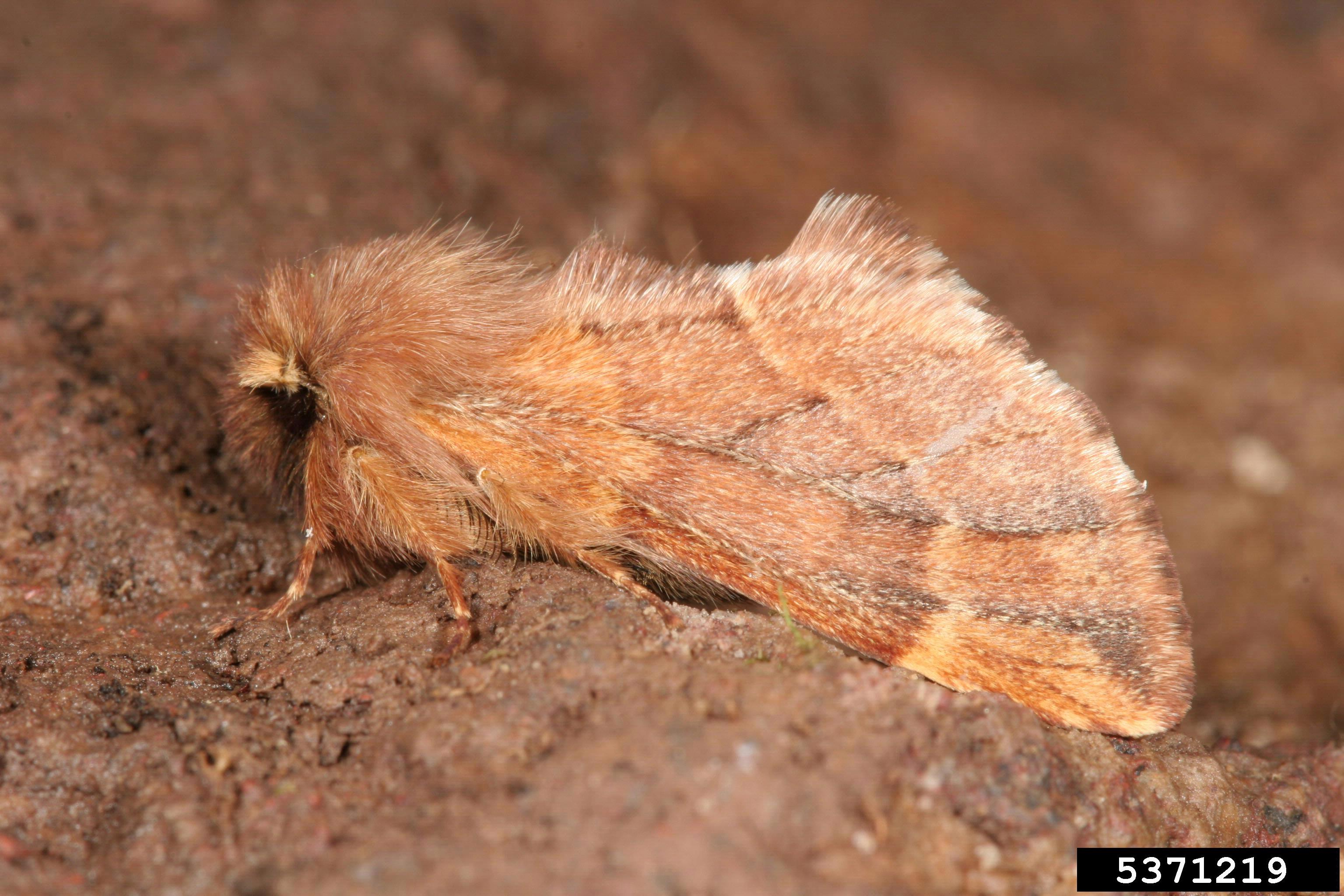 Ptilophora plumigera, adult, picture taken in Hungary.